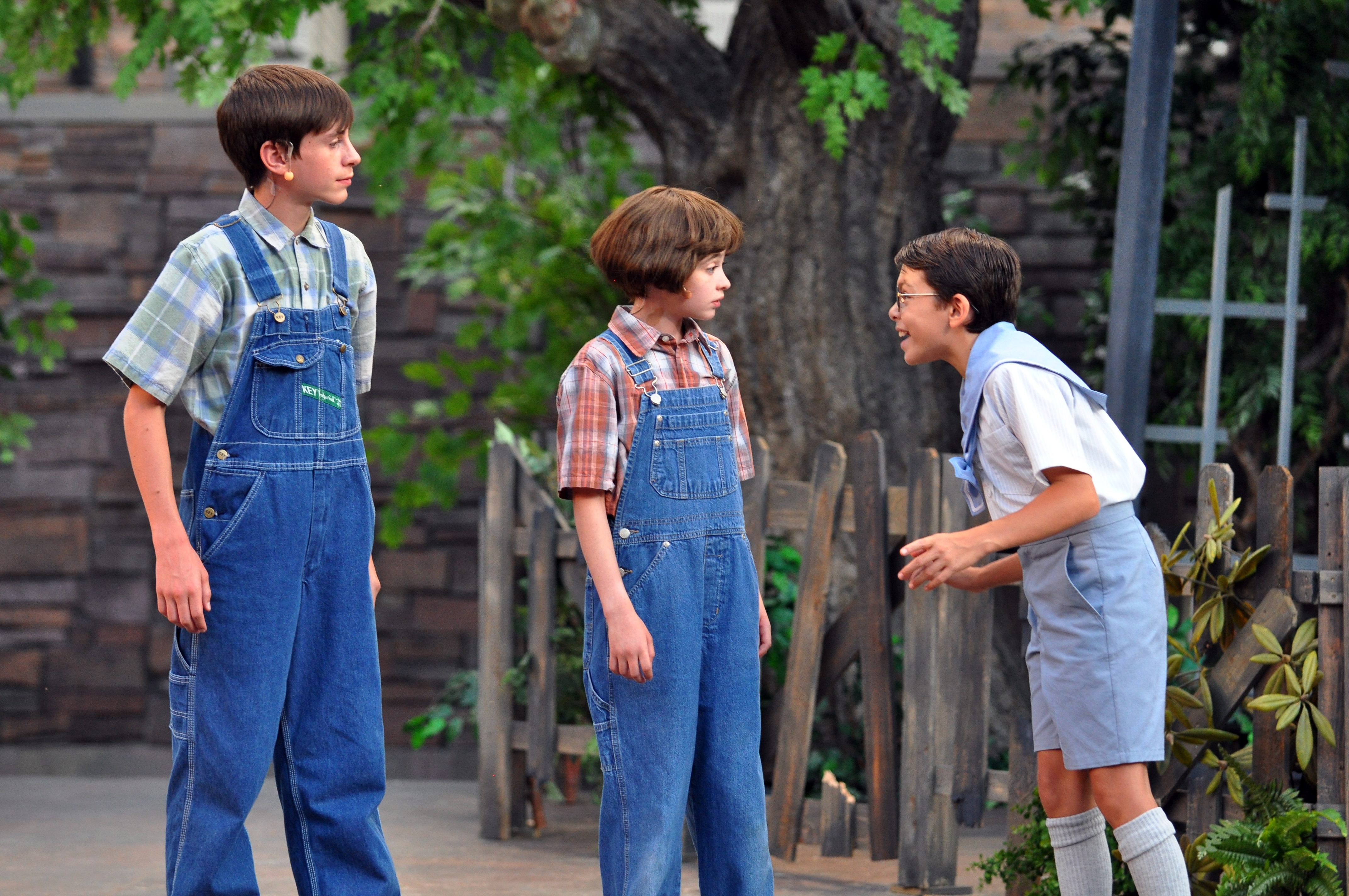 To Kill a Mockingbird, Colorado Shakespeare Festival, 2009, Mary Rippon Outdoor Theatre